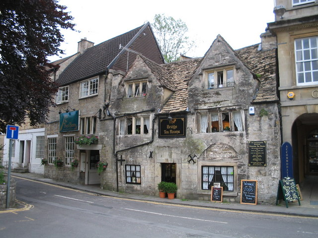 The Bridge Tea Rooms, Bradford-on-Avon. They don't build 'em like they used to.